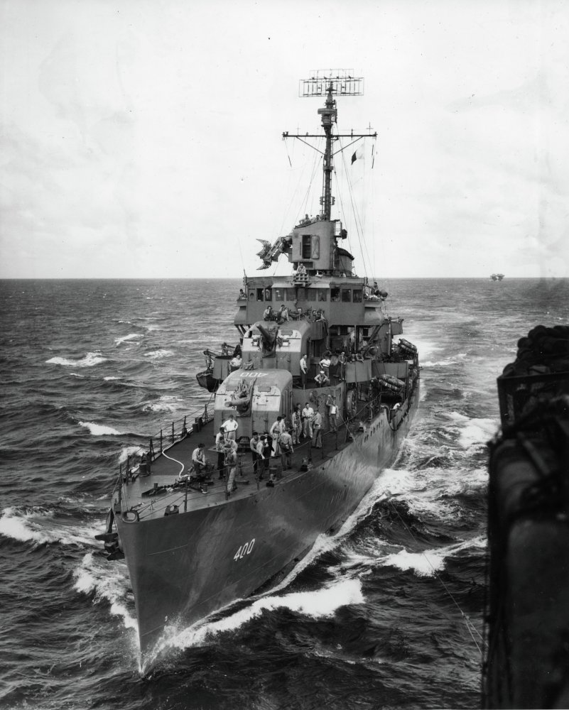 The U.S. Navy destroyer USS McCall (DD-400) underway in the Pacific Ocean on 15 January 1945 while alongside the escort carrier USS Makin Island (CVE-93). PictionID:38275921 - Catalog:AL-135B 203 USS McCall DD-400 - Filename:AL-135B 203 USS McCall DD-400.tif - This image is from a photo album donated to the Museum by JL Highfill which includes images taken in the Pacific during the Second World War-----------PLEASE TAG this image with any information you know about it, so that we can permanently store this data with the original image file in our Digital Asset Management System.-----------------SOURCE INSTITUTION: San Diego Air and Space Museum Archive